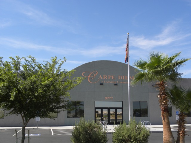 MLS Yuma AZ Schools - Education is always an important factor when deciding where to raise your current (or future) family.